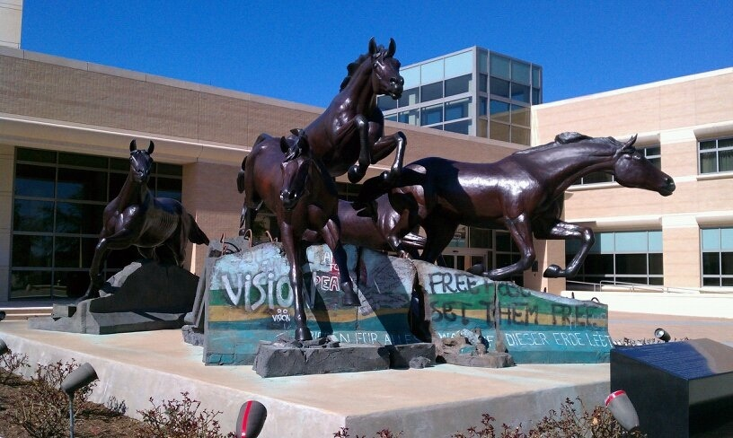 The poetic triumph of capitalism over communism.